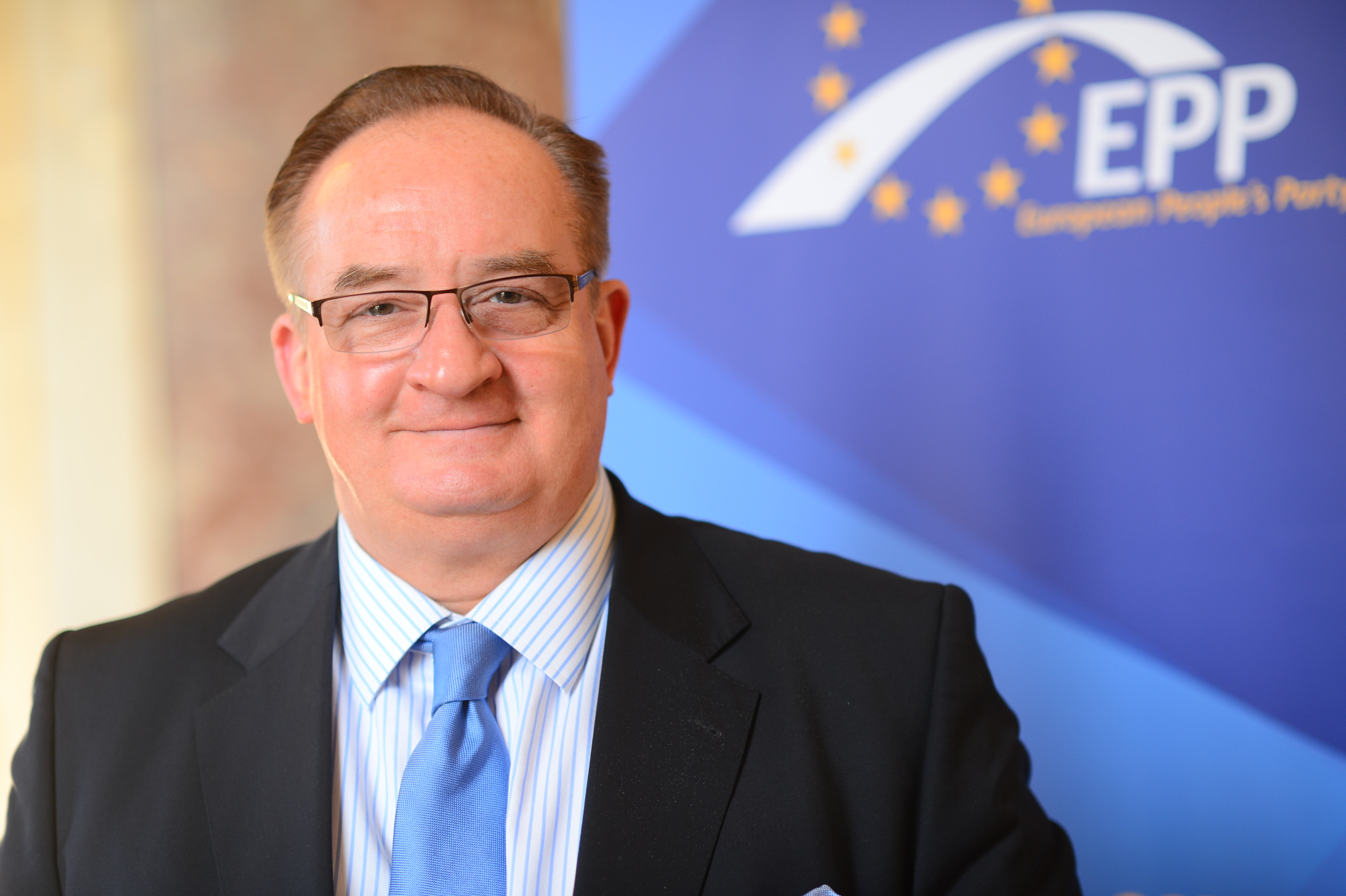 Members of the Presidency